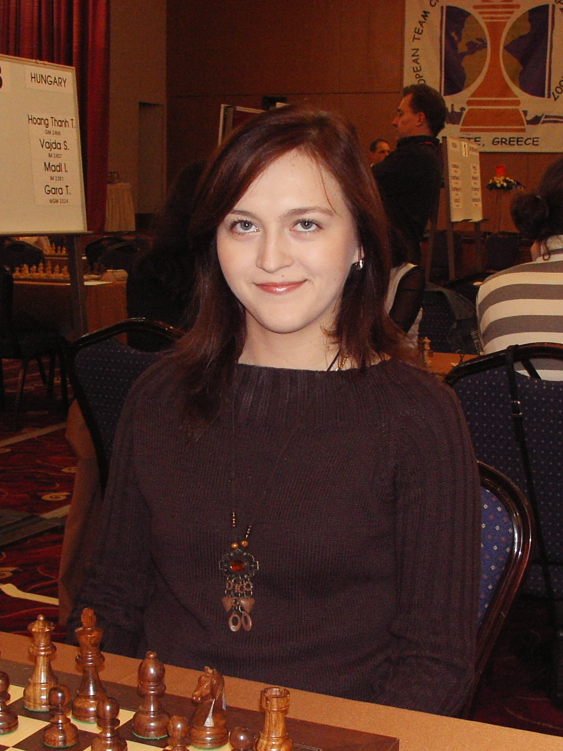 Anna Ushenina